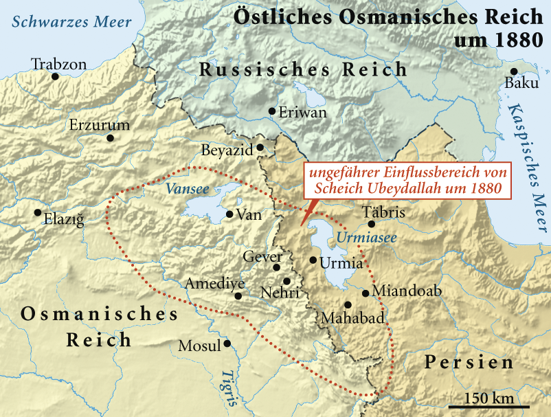 Eastern part of the Ottoman Empire ca. 1880 This map has been made or improved in the German Kartenwerkstatt (Map Lab). You can propose maps to improve as well.